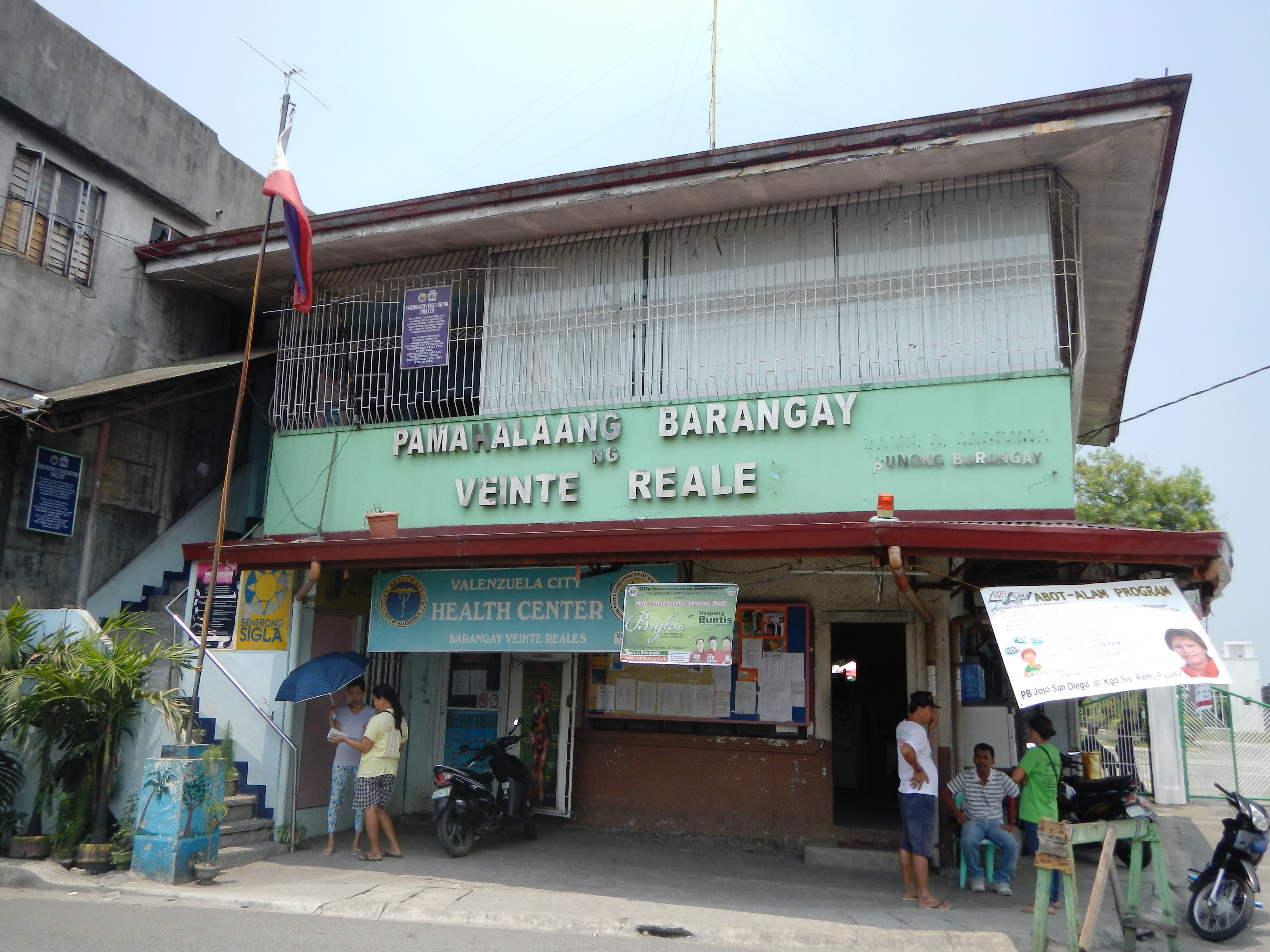 Veinte Reales, Valenzuela Hall